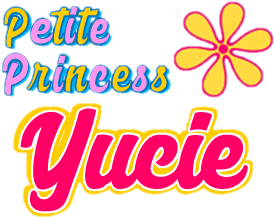 Reproduction of Petite Princess Yucie